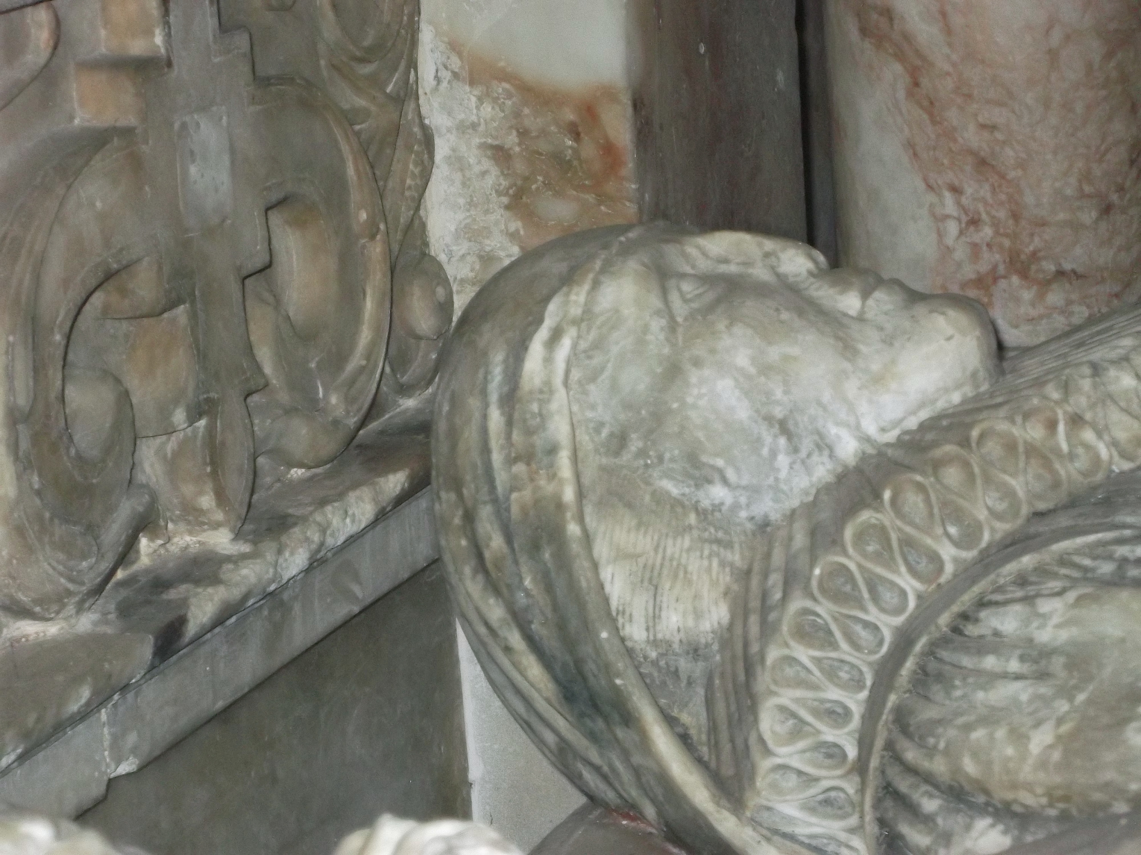 St Peter the Apostle, Worfield, Shropshire. Effigy of Margaret Bromley (d. 1657), a notable supporter of Puritan clergy, wife of Sir Edward Bromley.